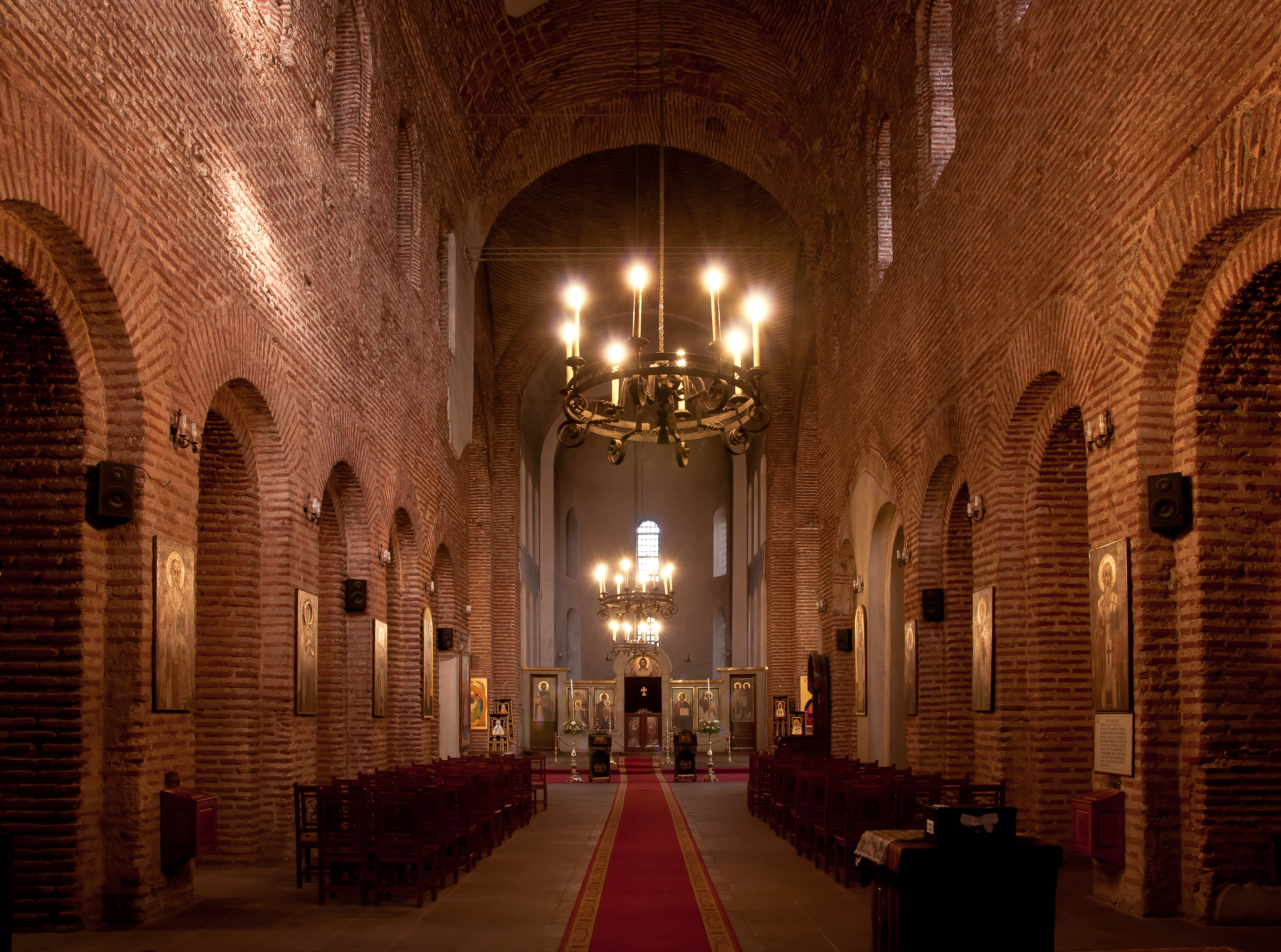 The nave of the old basilica Hagia Sophia in Sofia, Bulgaria. Dating to the 6th century CE (reconstructed in 20th century). Byzantine style. In the 14th century, the church gave its name to the nowadays Bulgarian capital that was previously known as Sredets and Serdika.